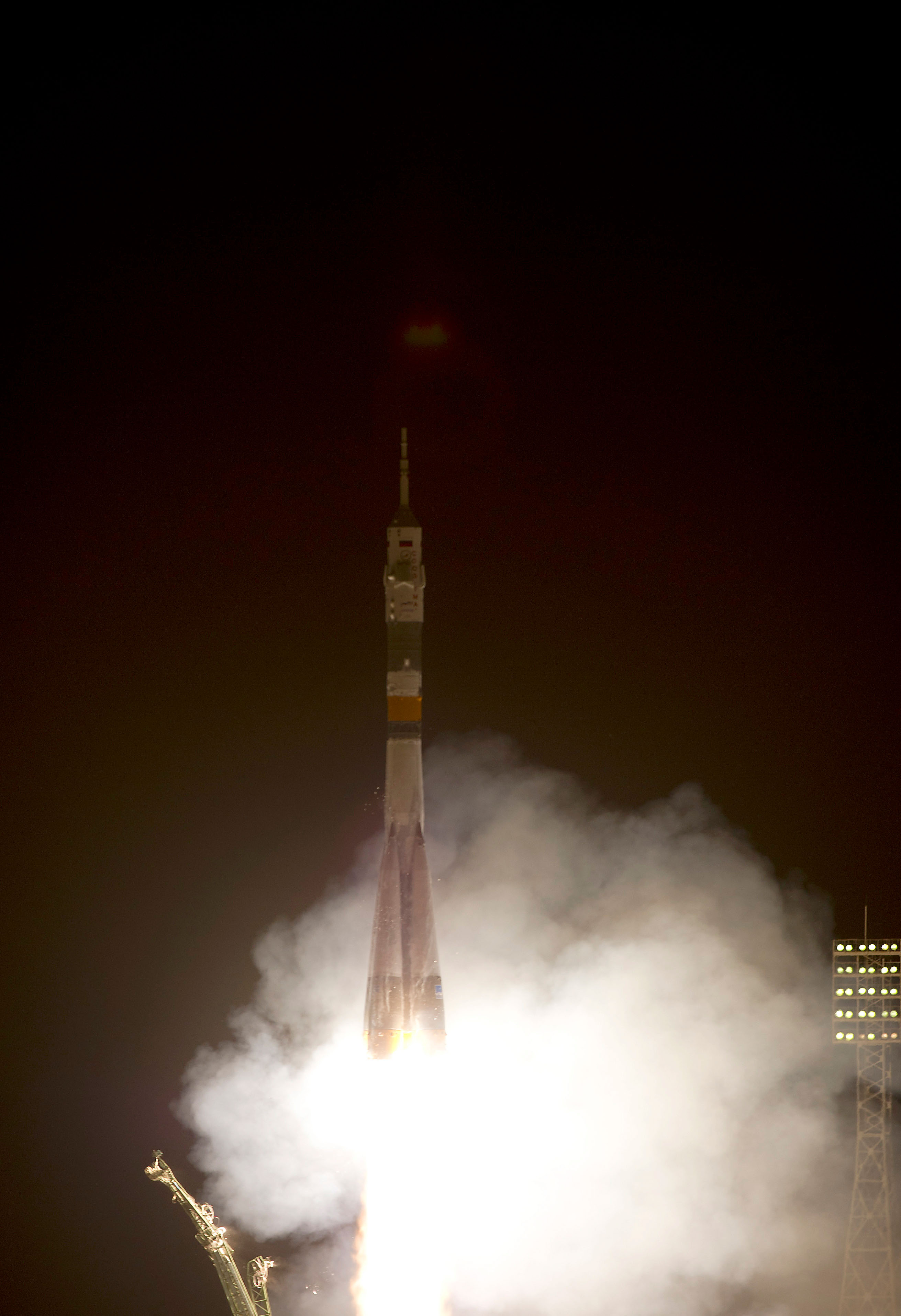 (8 June 2011, Kazakhstan time) — The Soyuz TMA-02M spacecraft launches from the Baikonur Cosmodrome in Kazakhstan early June 8, 2011 (Kazakhstan time) carrying cosmonaut and Expedition 28 Soyuz commander Sergei Volkov, NASA astronaut Mike Fossum and Japan Aerospace Exploration Agency astronaut Satoshi Furukawa to the International Space Station. Fossum and Furukawa are flight engineers. The three will arrive at the station June 9 (Kazakhstan time) to join three other members of the Expedition 28 crew already onboard the International Space Station.